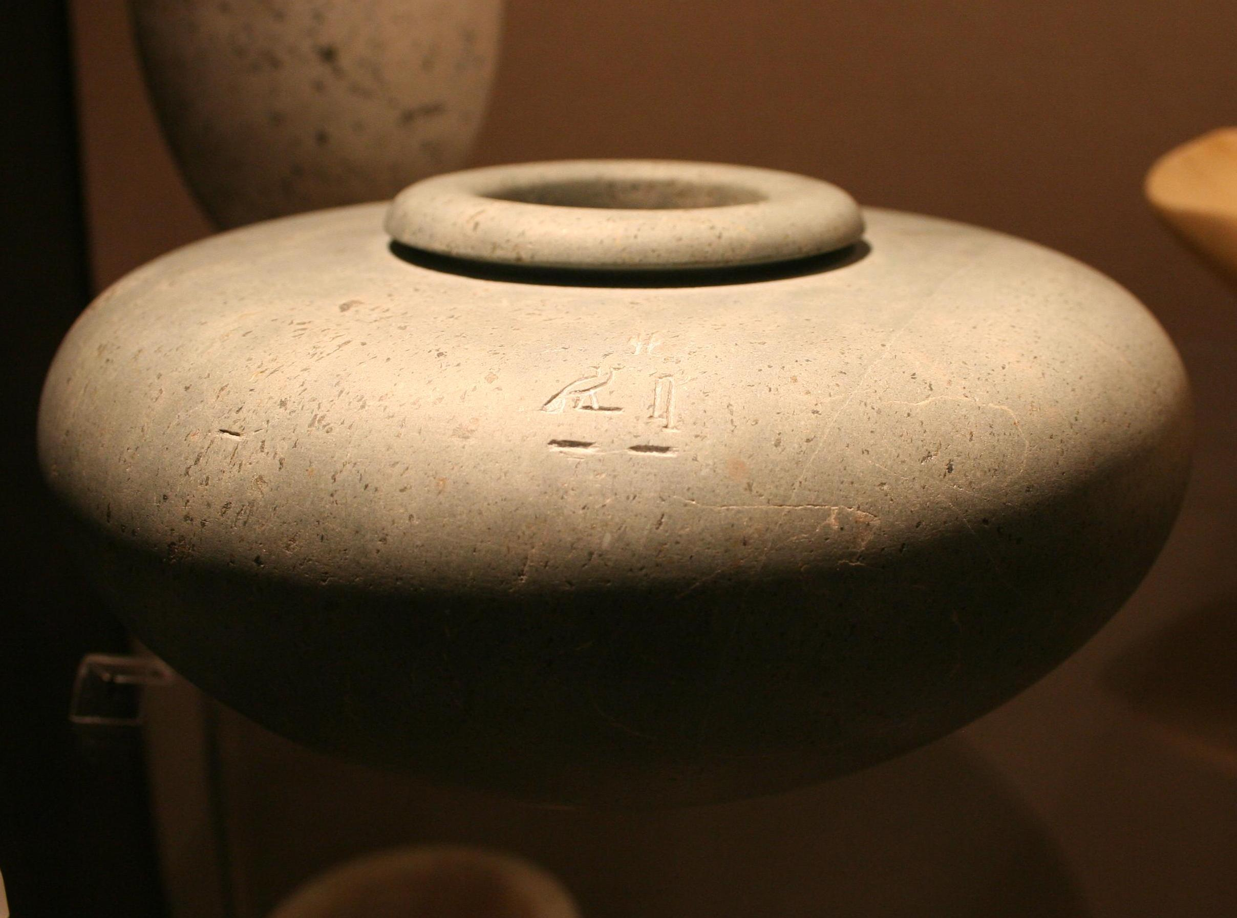 Vessel of the Neith-priest Tet, Abusir, 2nd Dynasty